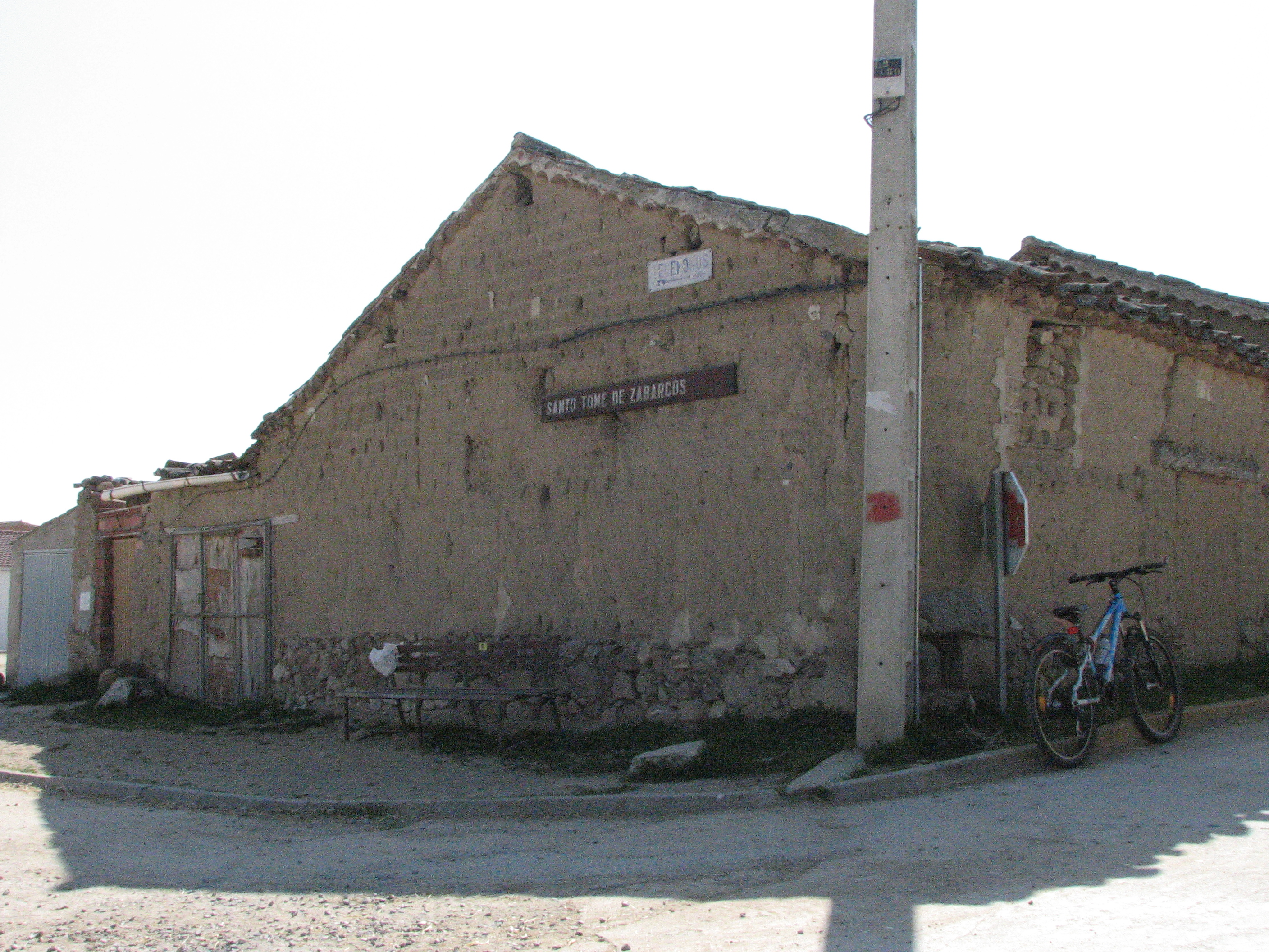 "Please translate". Santo Tomé de Zabarcos. Ávila. España.